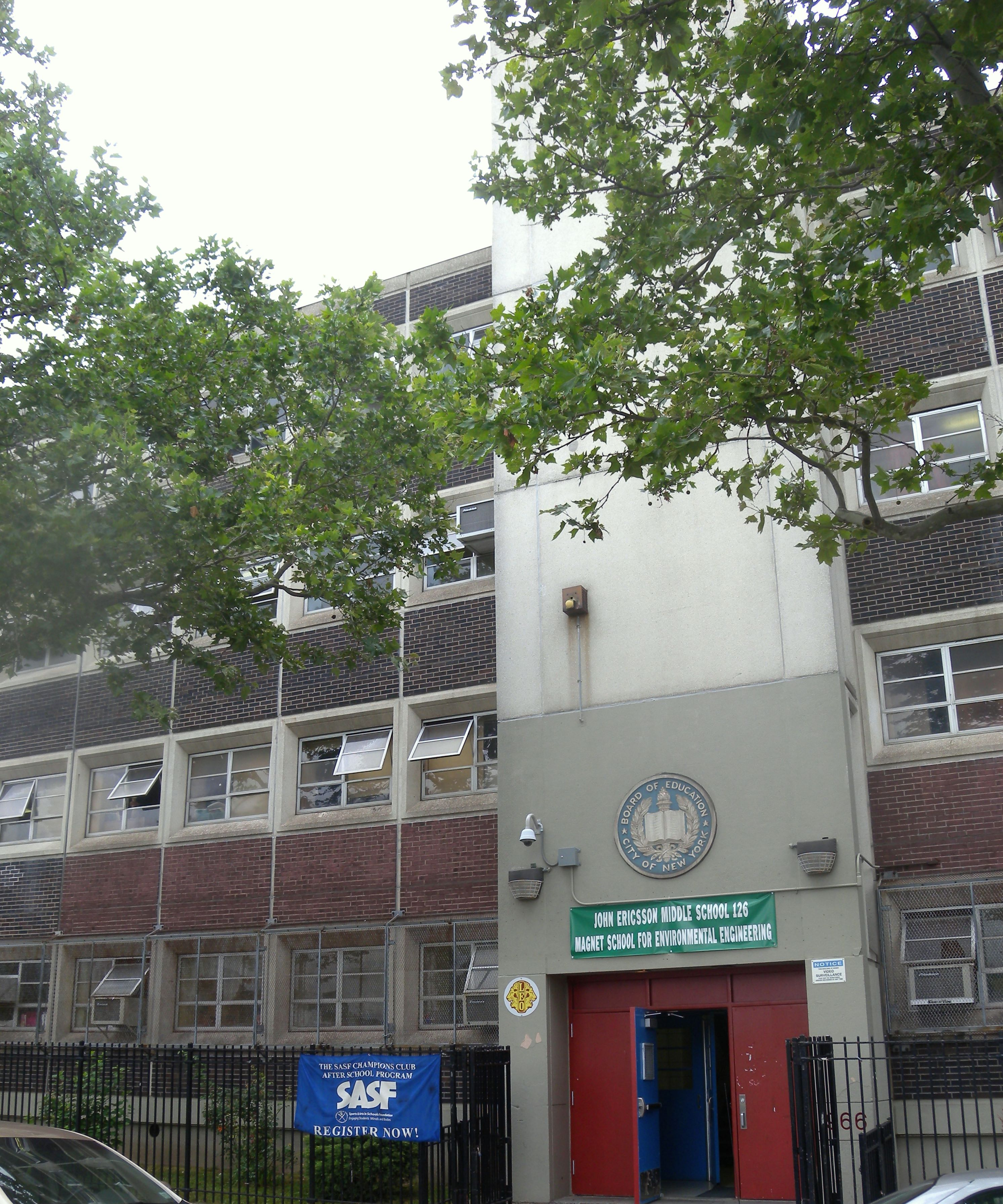 Lookng east across Leonard Street at Ericsson Middle School on a cloudy day.